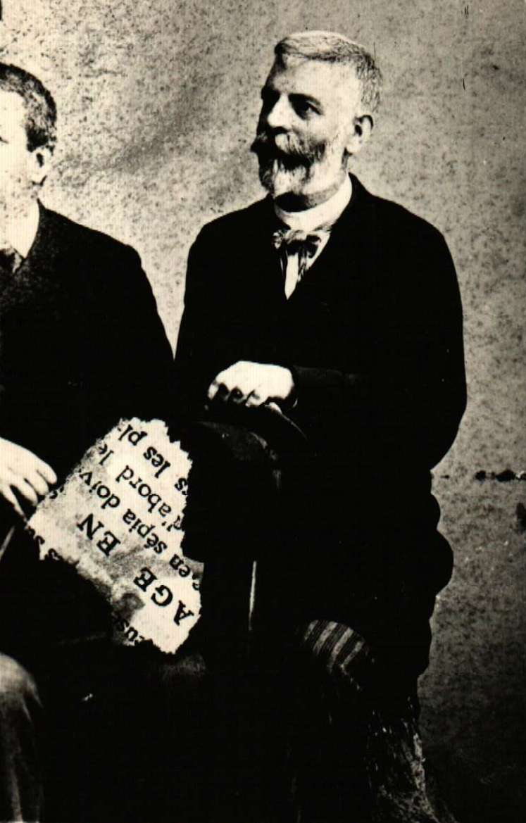 Bulgarian ethnographer Dimitar Marinov (1846-1940)